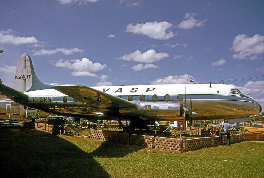 Vickers Viscount 701 PP-SRN of VASP at Sao Paulo Marte airfield in 1975